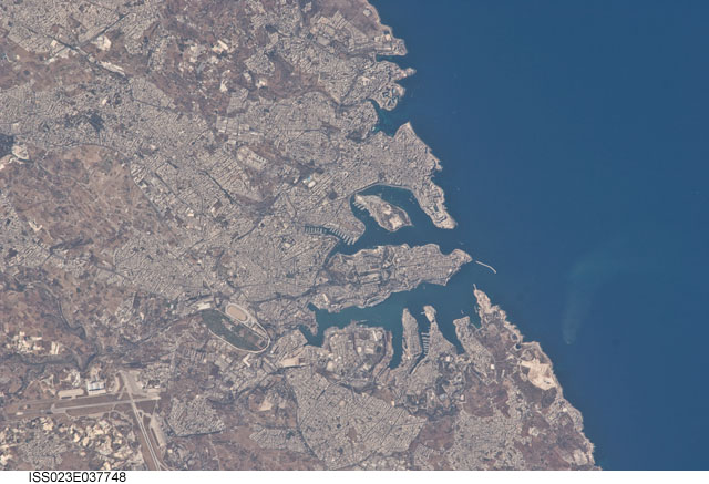 Astronaut Photo of Valletta, Malta taken from the International Space Station (ISS) during Expedition 23 on May 10, 2010. (